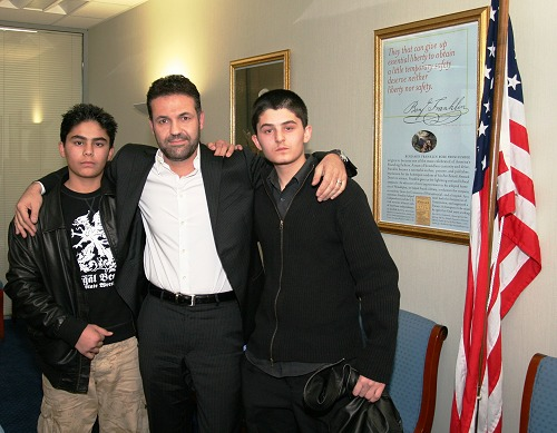 Kite Runner novel author Khaled Hosseini with Bahram and Elham Ehsas, who acted in the film The Kite Runner